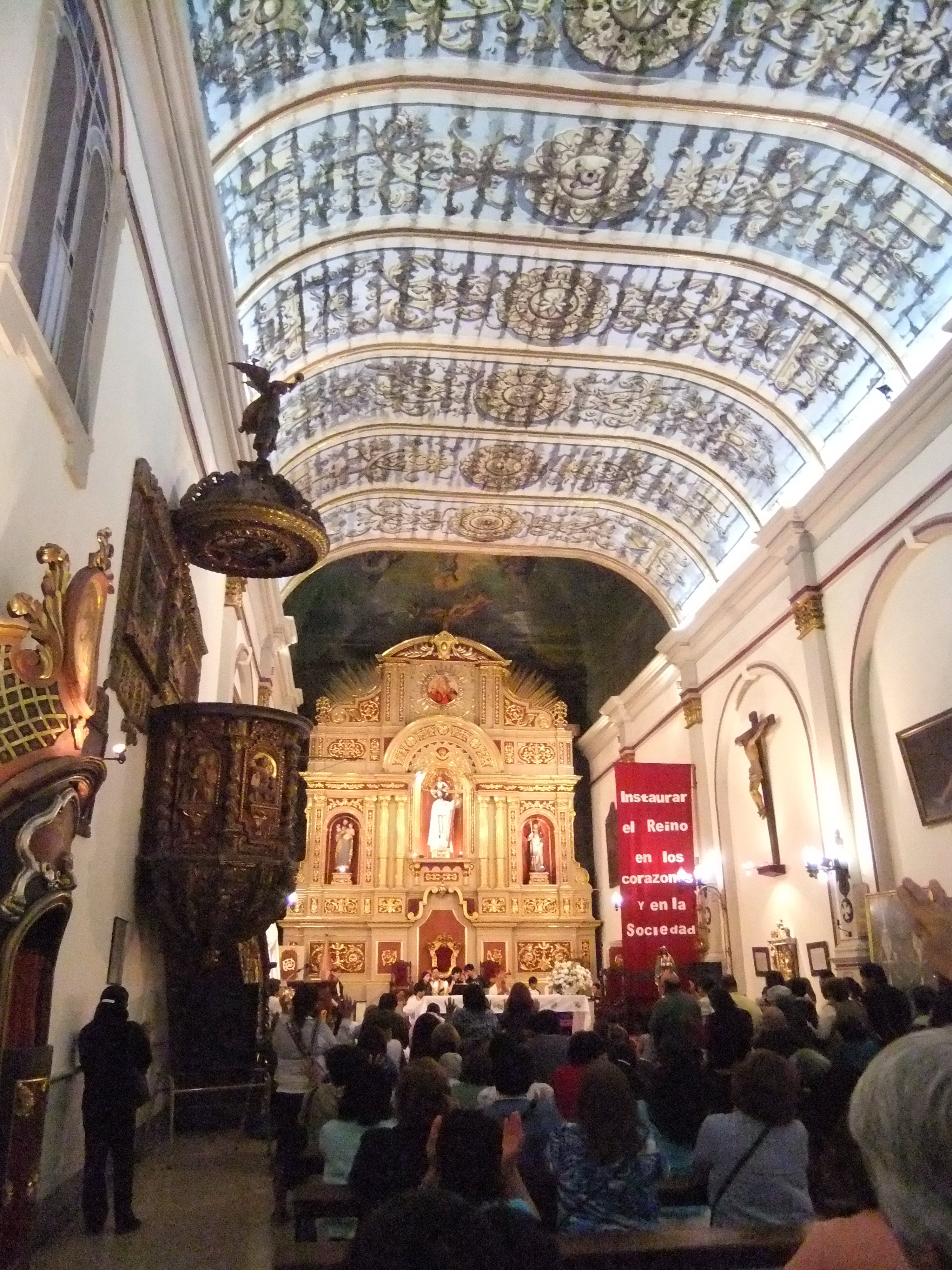 Cathedral of Jujuy, Argentina.